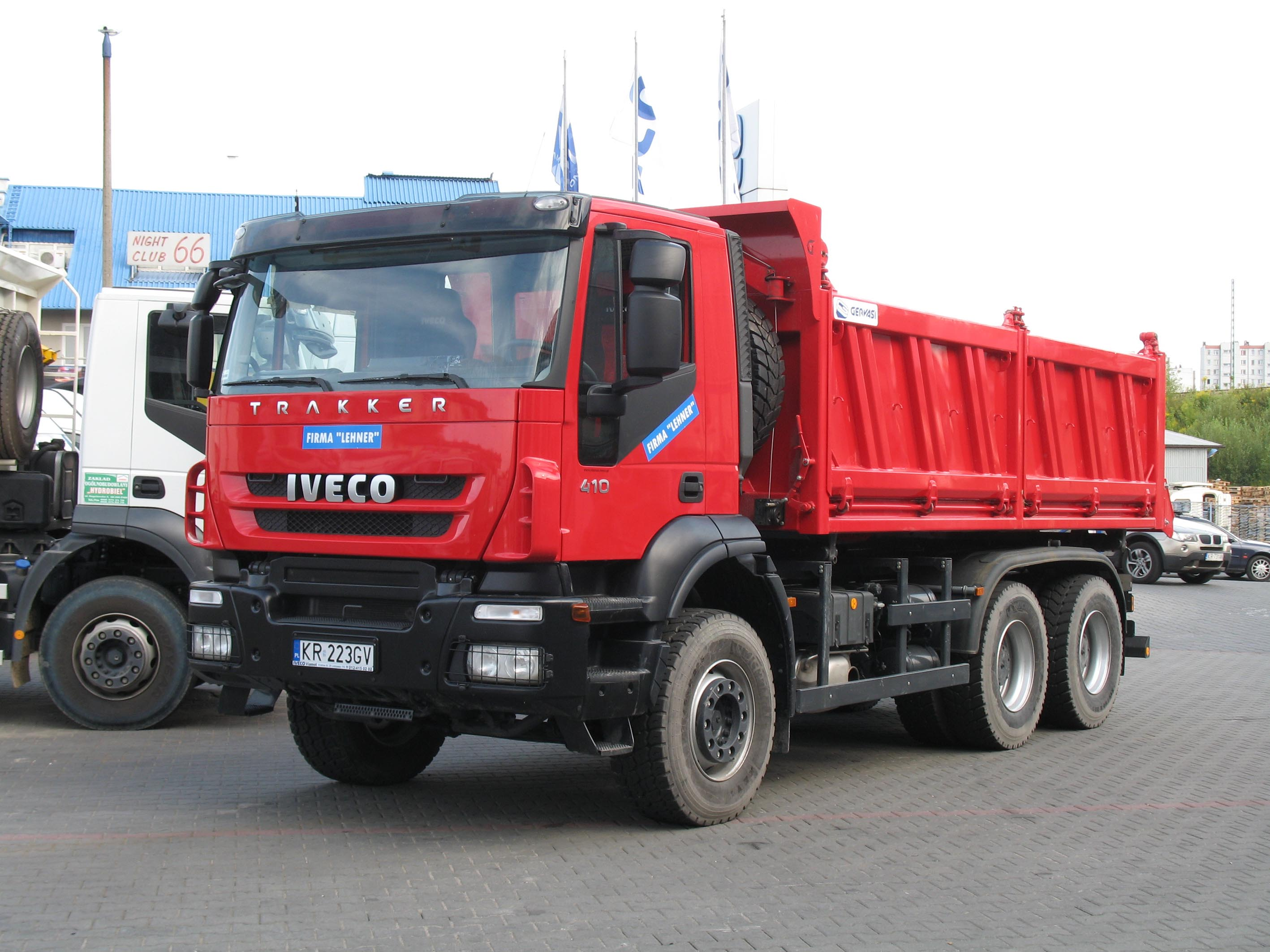 Iveco Trakker 410 dump truck in Kraków, Poland.